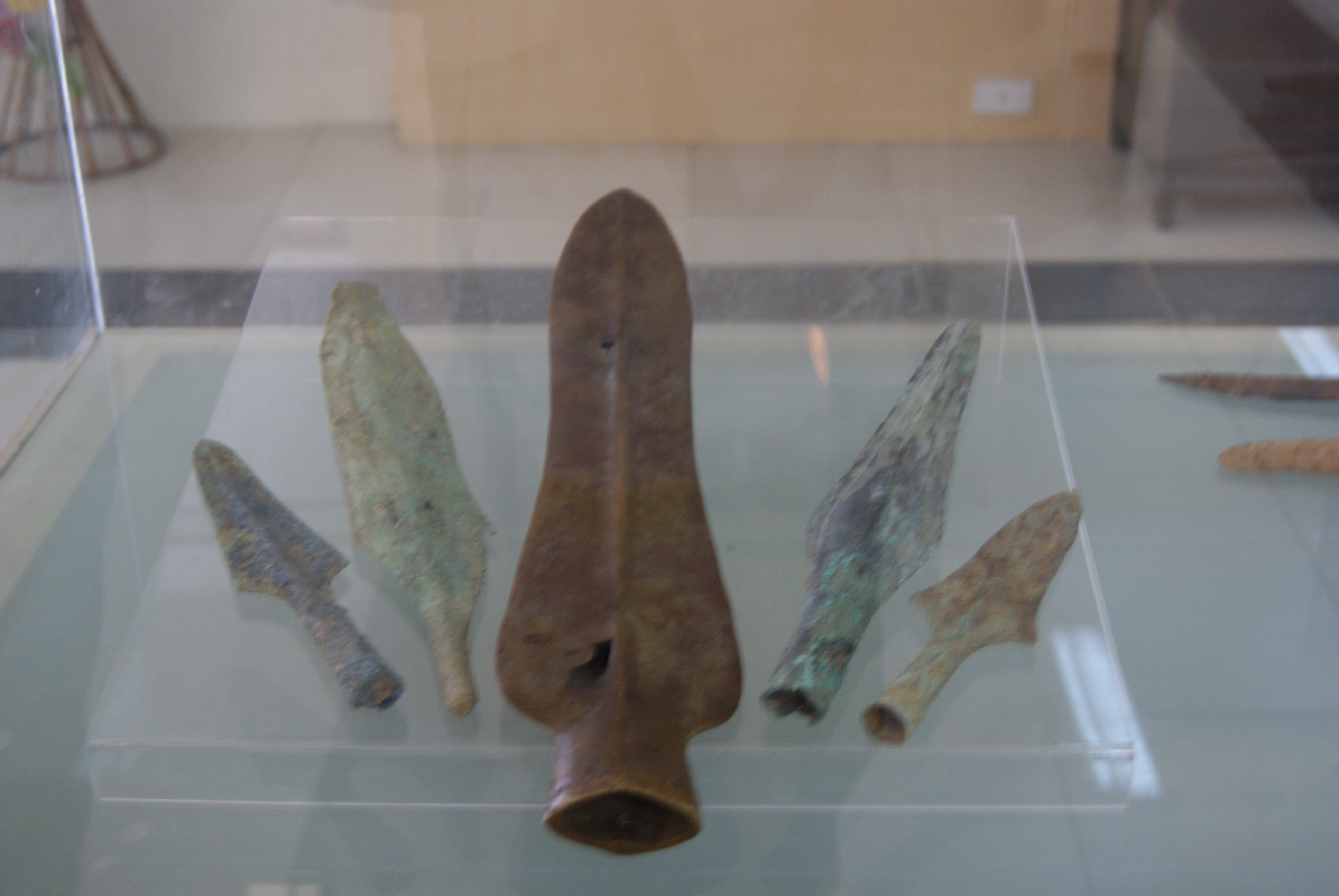 Spear heads